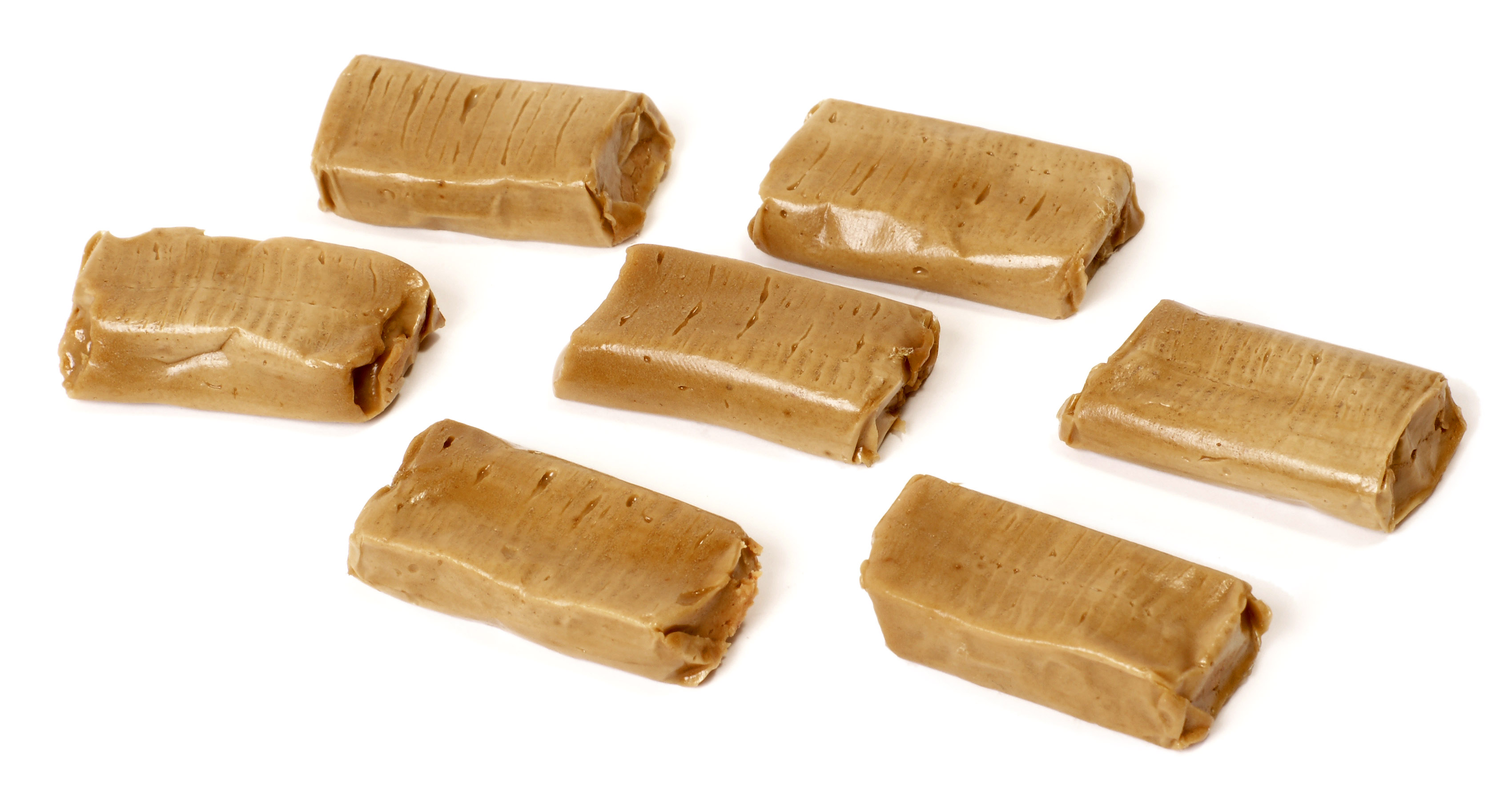 A bunch of Mary Jane candies, made of molasses and peanut butter by Necco.